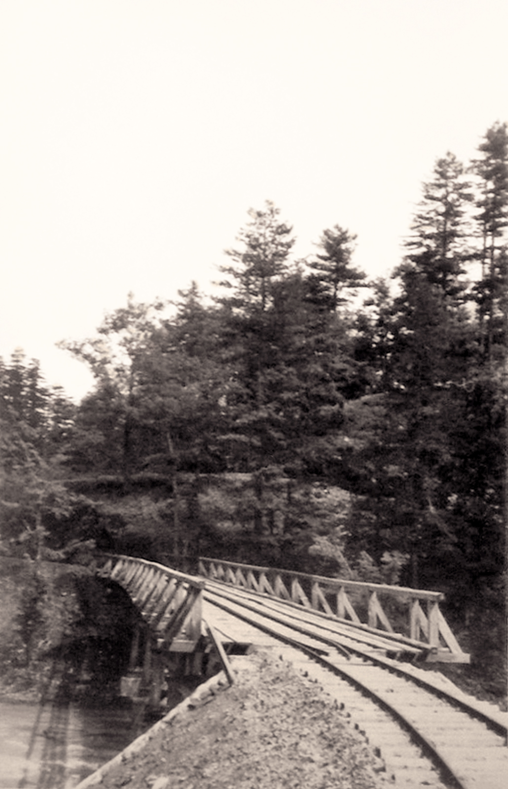 Forestry line towards Han Pijesak